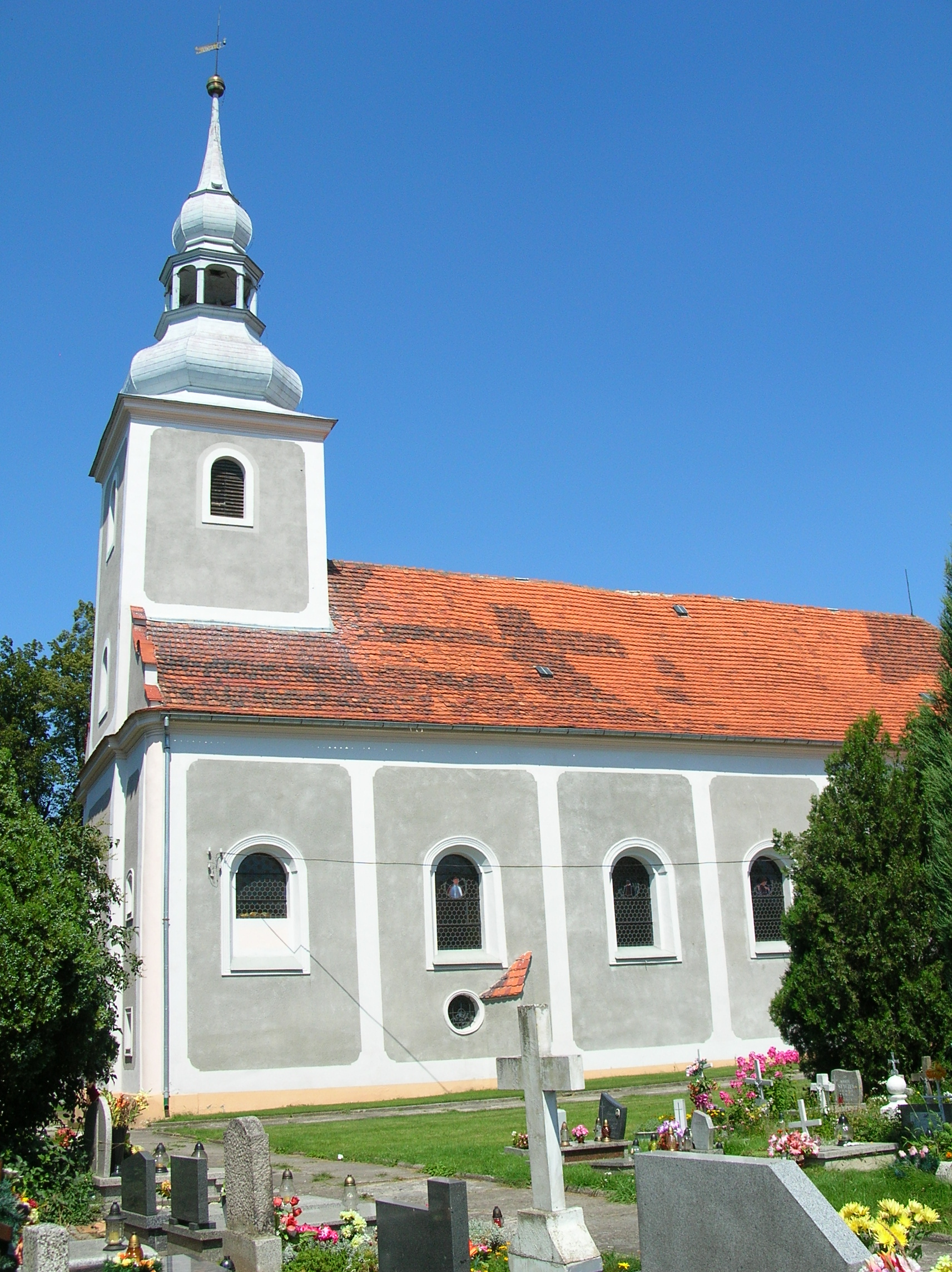 Church in Stoszowice